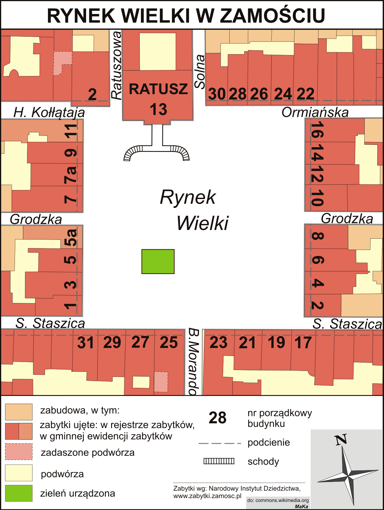 Plan of Great Market Square in Zamość, Poland